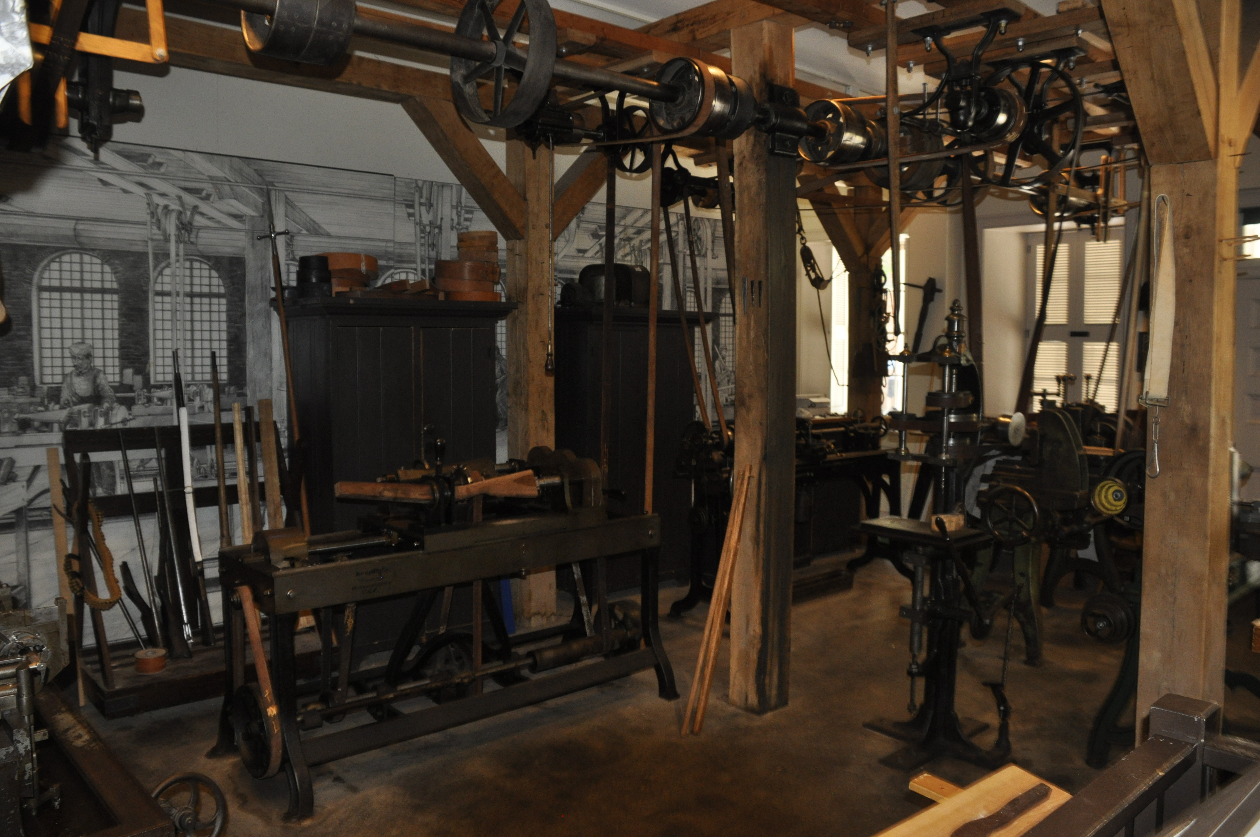 Harpers Ferry Armory gunsmith shop had machines for production of the lock, the stock and the barrel. The machines are from 1850's and are all powered by water. The power is transmitted to the machine by a set of pulleys and leather belts. This machine is a Duplicating or Blanchard lathe used to create stock identical to a pattern.